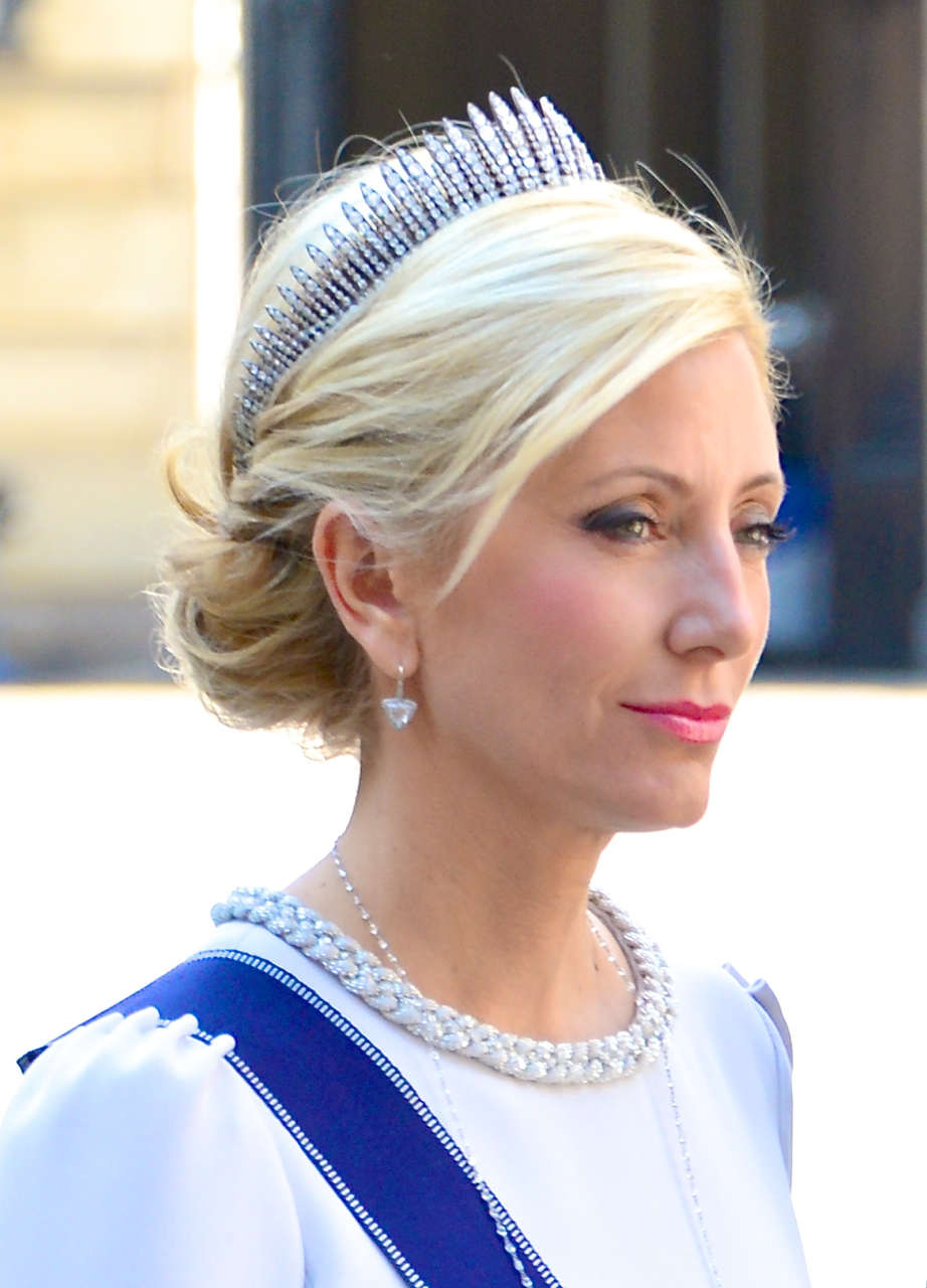 Marie-Chantal, Crown Princess of Greece, on her way to the castle church at the Royal Palace in Stockholm for the wedding between Princess Madeleine and Christopher O'Neill, June 8, 2013.